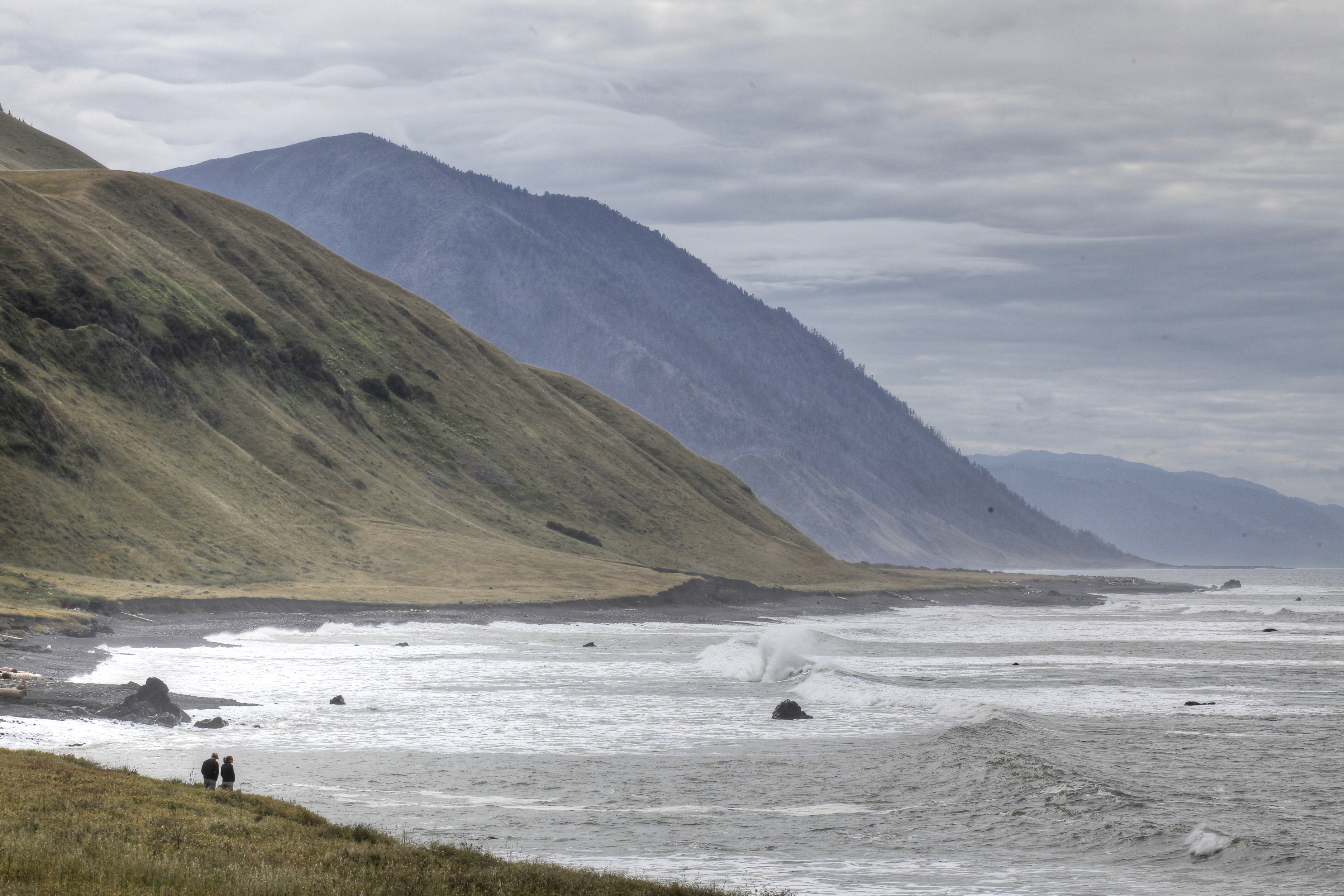 A spectacular meeting of land and sea is certainly the dominant feature of King Range National Conservation Area. Mountains seem to thrust straight out of the surf; a precipitous rise rarely surpassed on the continental U.S. coastline. King Peak, the highest point at 4,088 feet, is only three miles from the ocean. The King Range NCA covers 68,000 acres and extends along 35 miles of coastline between the mouth of the Mattole River and Sinkyone Wilderness State Park. Here the landscape was too rugged for highway building, forcing State Highway 1 and U.S. 101 inland. The remote region is known as California's Lost Coast, and is only accessed by a few back roads. The recreation opportunities here are as diverse as the landscape. The Douglas-fir peaks attract hikers, hunters, campers and mushroom collectors, while the coast beckons to surfers, anglers, beachcombers, and abalone divers to name a few. For more information visit: Photos/Videos: Bob Wick, BLM